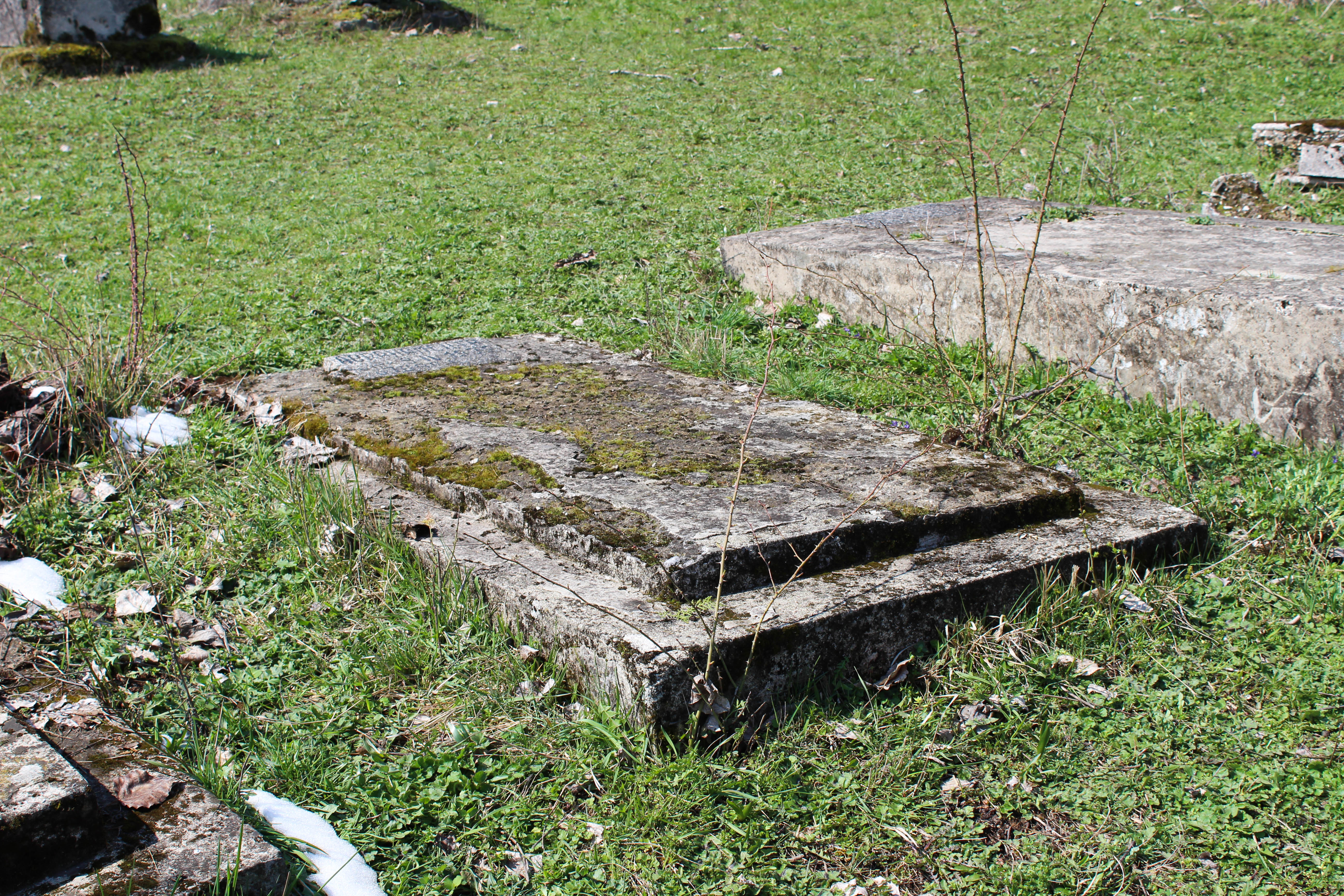 Wiki Women Republic of Srpska Photo Tour: The Jewish cemetery in Višegrad.